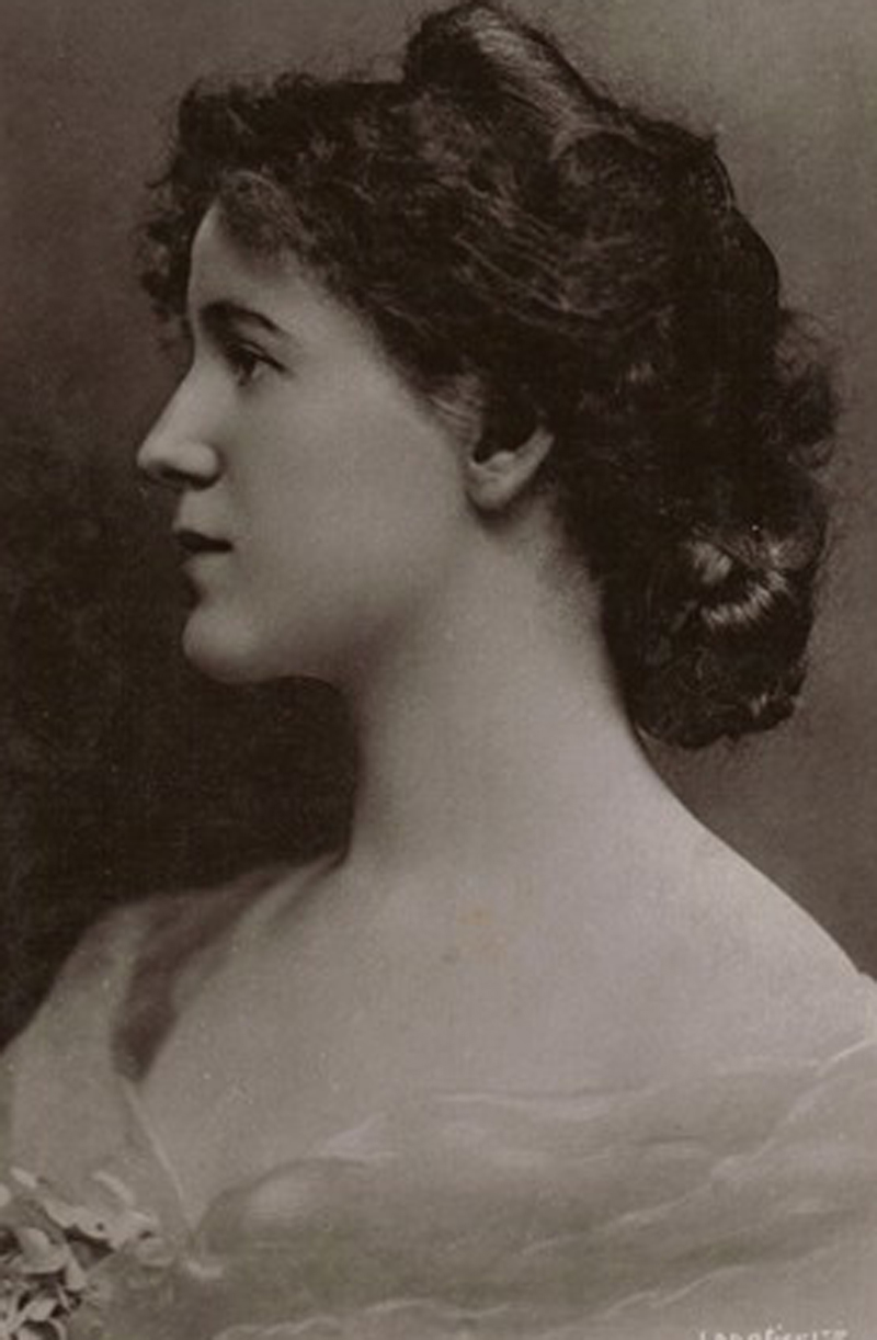 Jessie Smither, stage actress known as Denise Orme, circa 1905, owner of Lupton House, Brixham